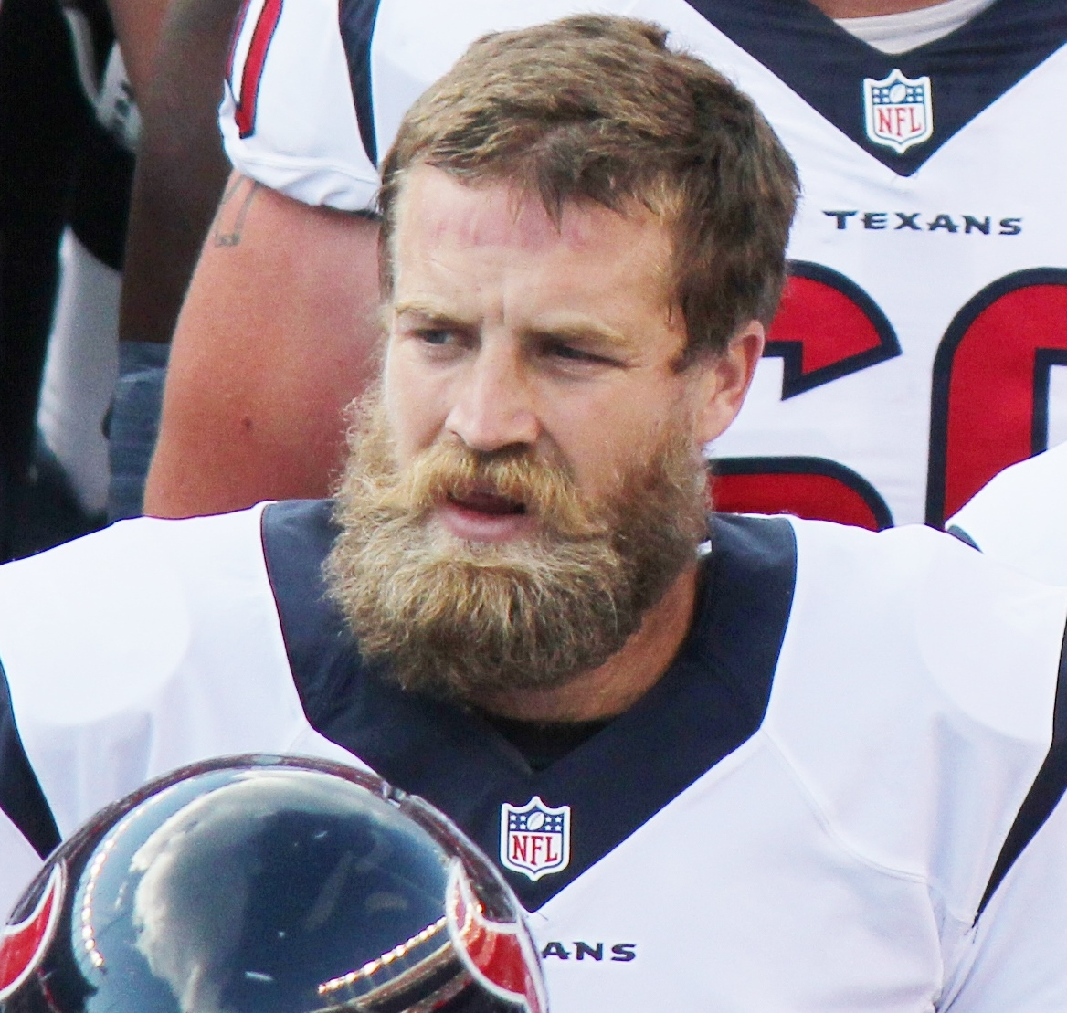 Ryan Fitzpatrick, a player on the National Football League.